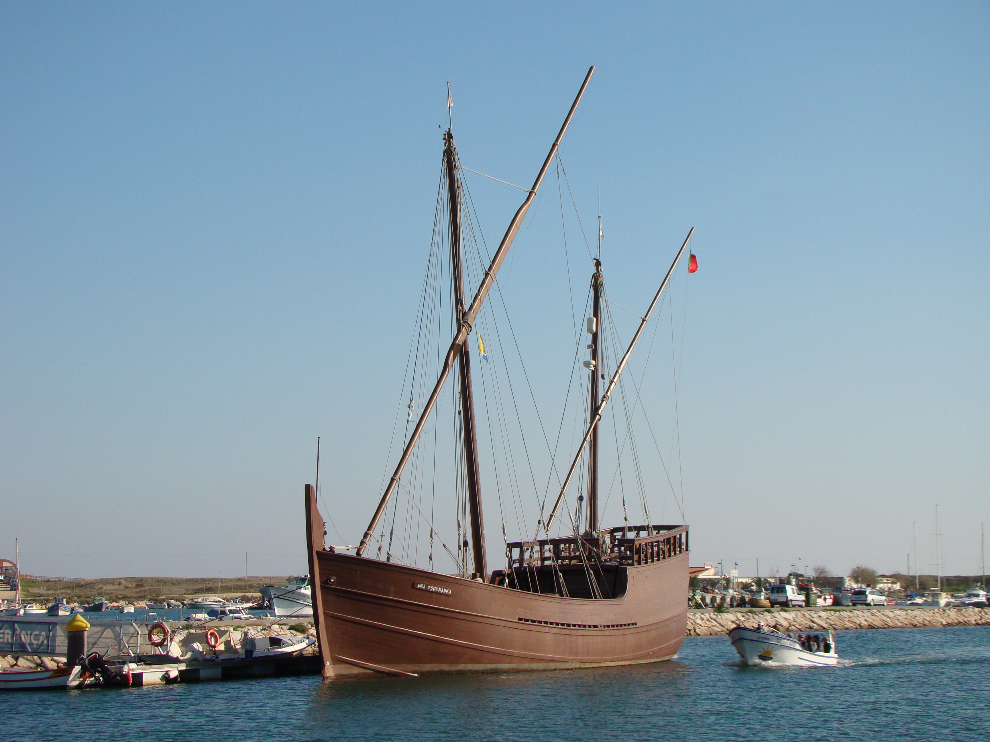 Boa Esperança Caravel - Lagos, Portugal